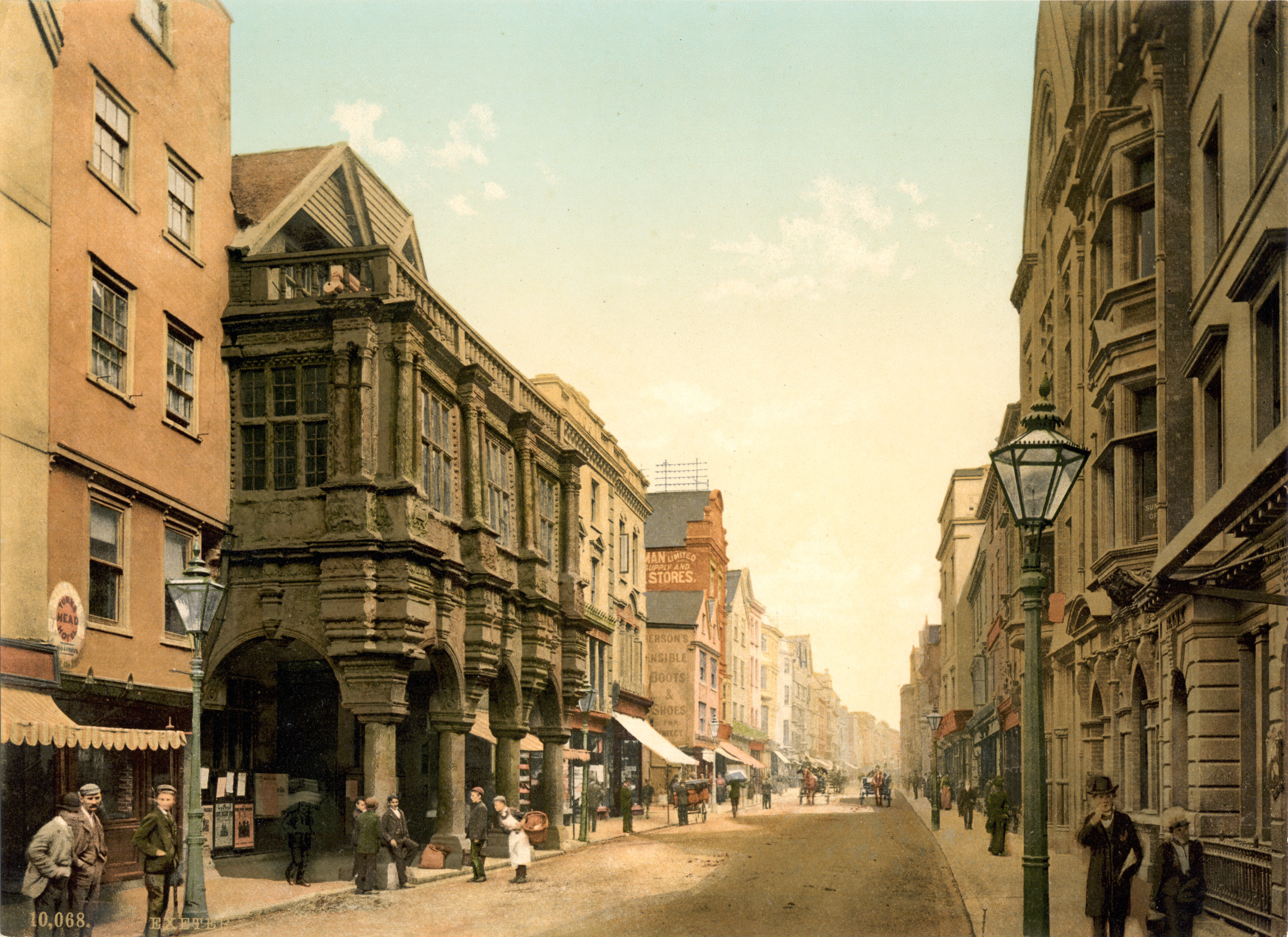 High Street, Exeter, England, ca. 1895